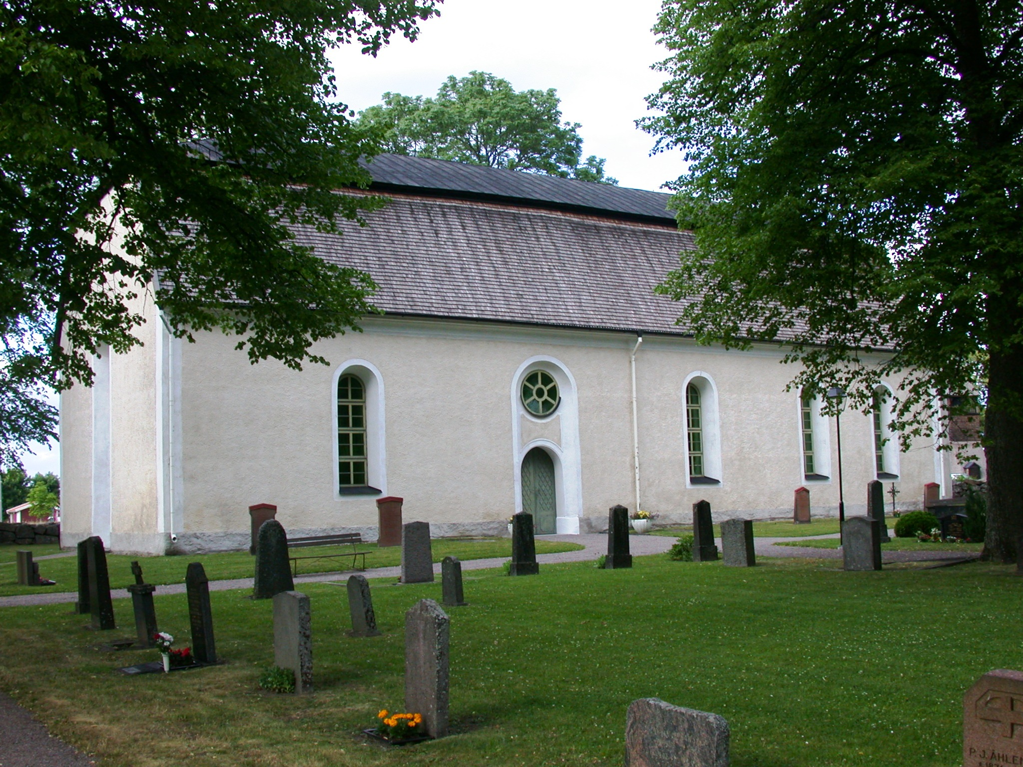 Harbo church, Heby, Diocese of Uppsala, Sweden